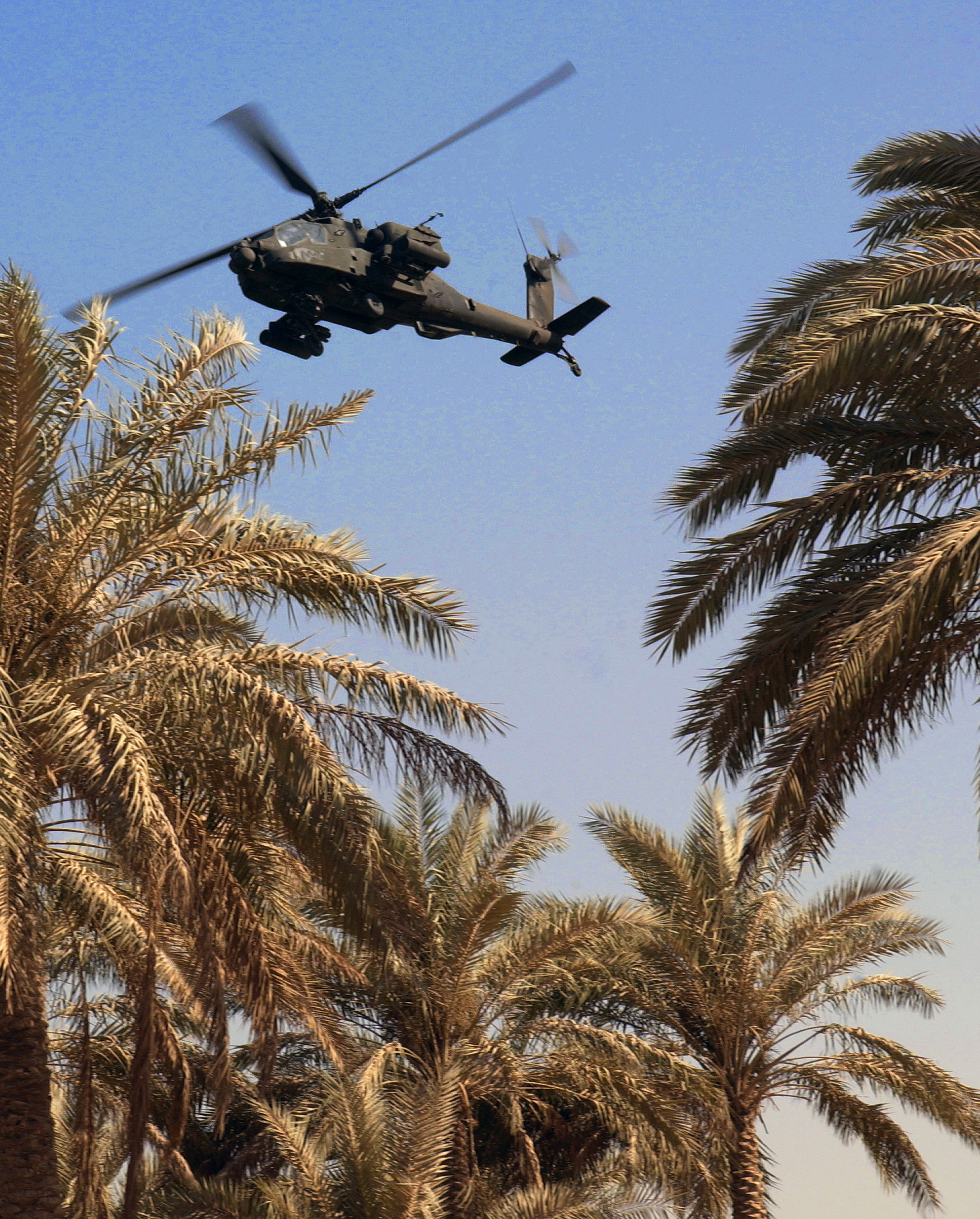 A US Army (USA) AH-64 Apache attack helicopter provides air support for coalition forces securing buildings suspected of containing insurgent cells working in the region, in support of Operation Iraqi Freedom.